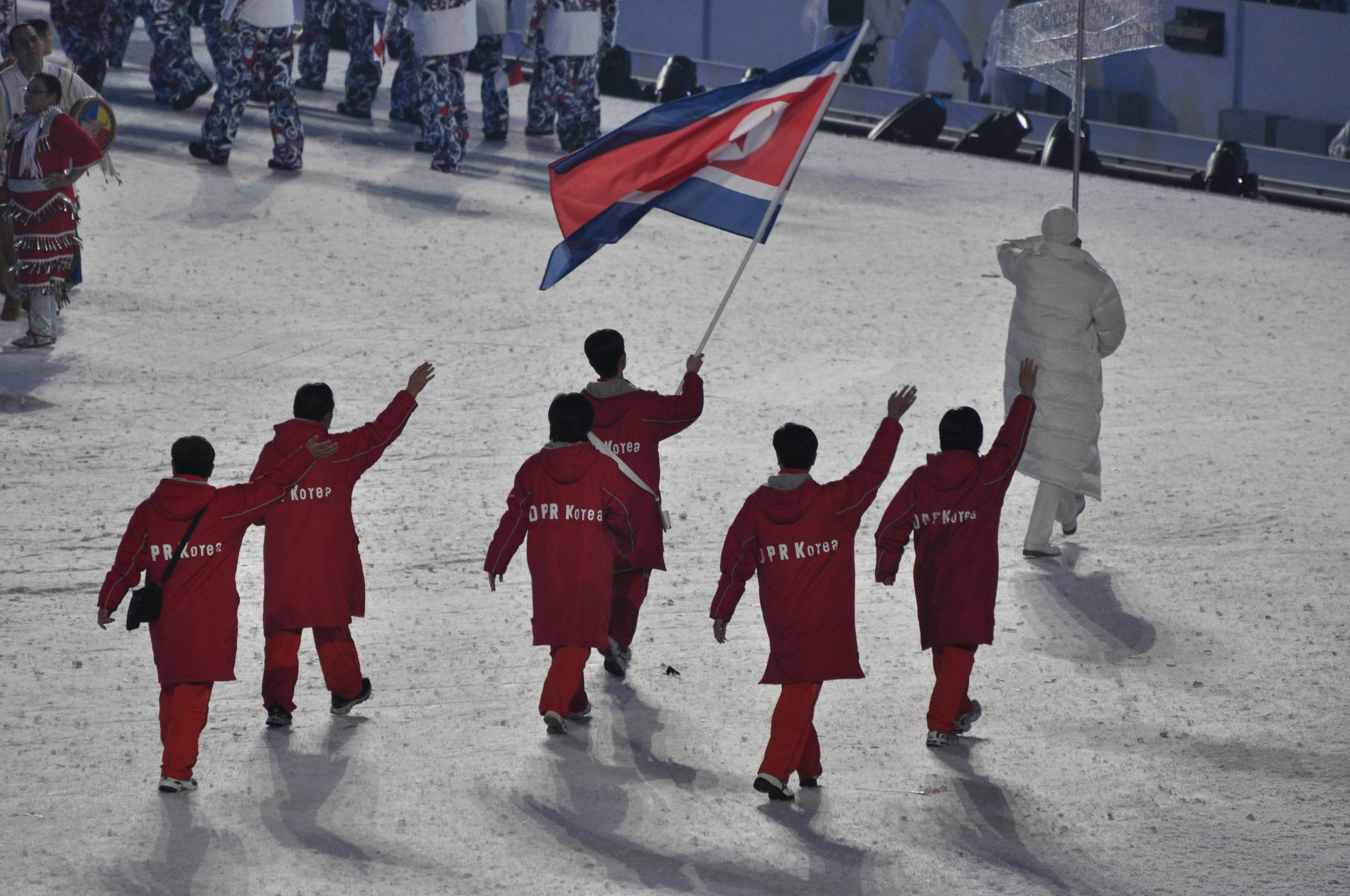 Olympic March (16 of 99)